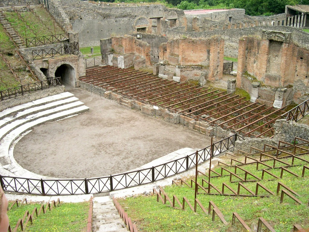 Pompei, theater